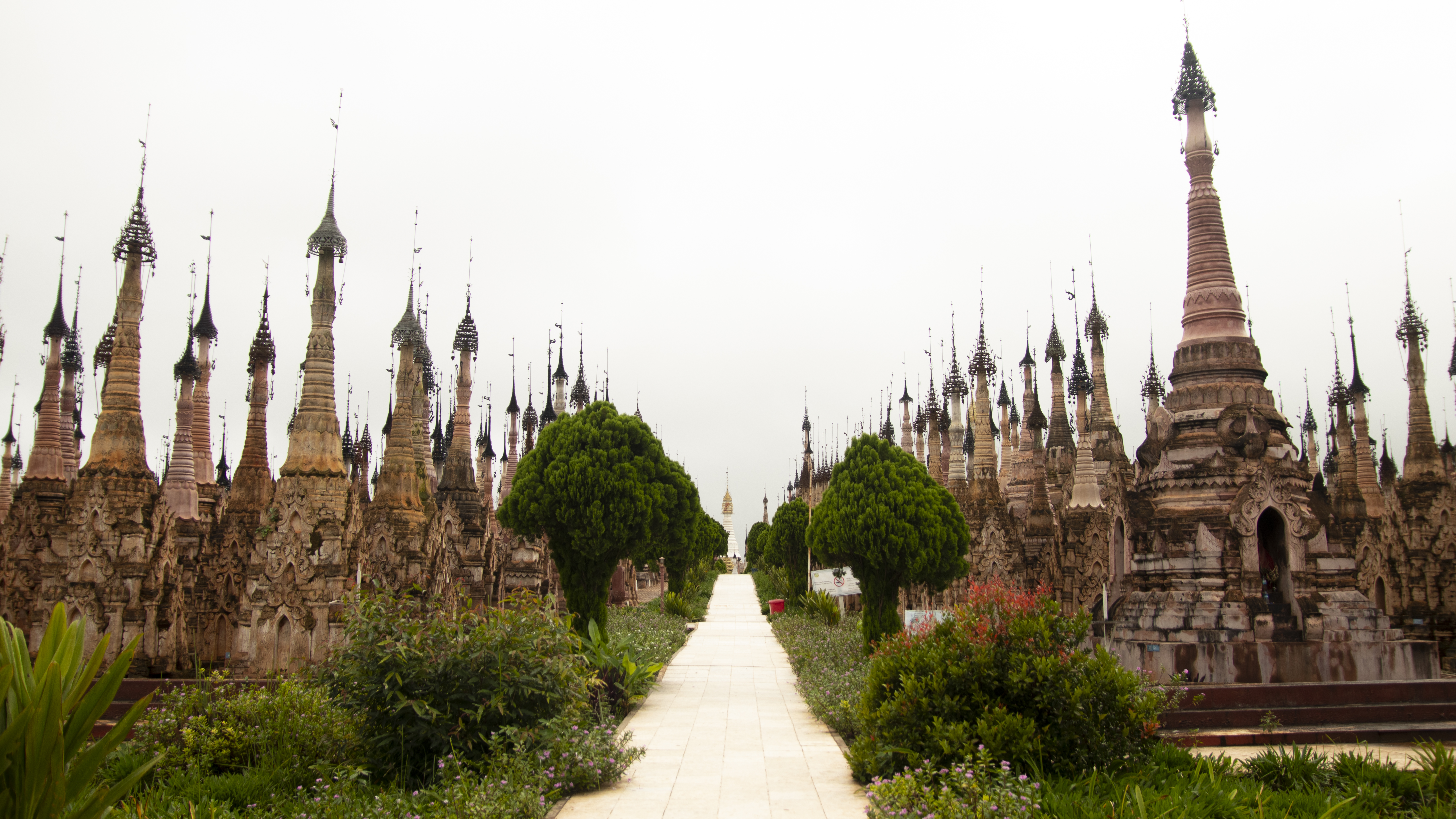 Stupas in Mwetaw Kakku Pagoda which is located in Southern Shan State, Myanmar. မြန်မာဘာသာ: မြန်မာနိုင်ငံ ရှမ်းပြည်နယ်တောင်ပိုင်းရှိ မွေတော်ကက္ကူဘုရားဝင်းအတွင်းရှိ စေတီဘုရားများပုံ ဖြစ်သည်။